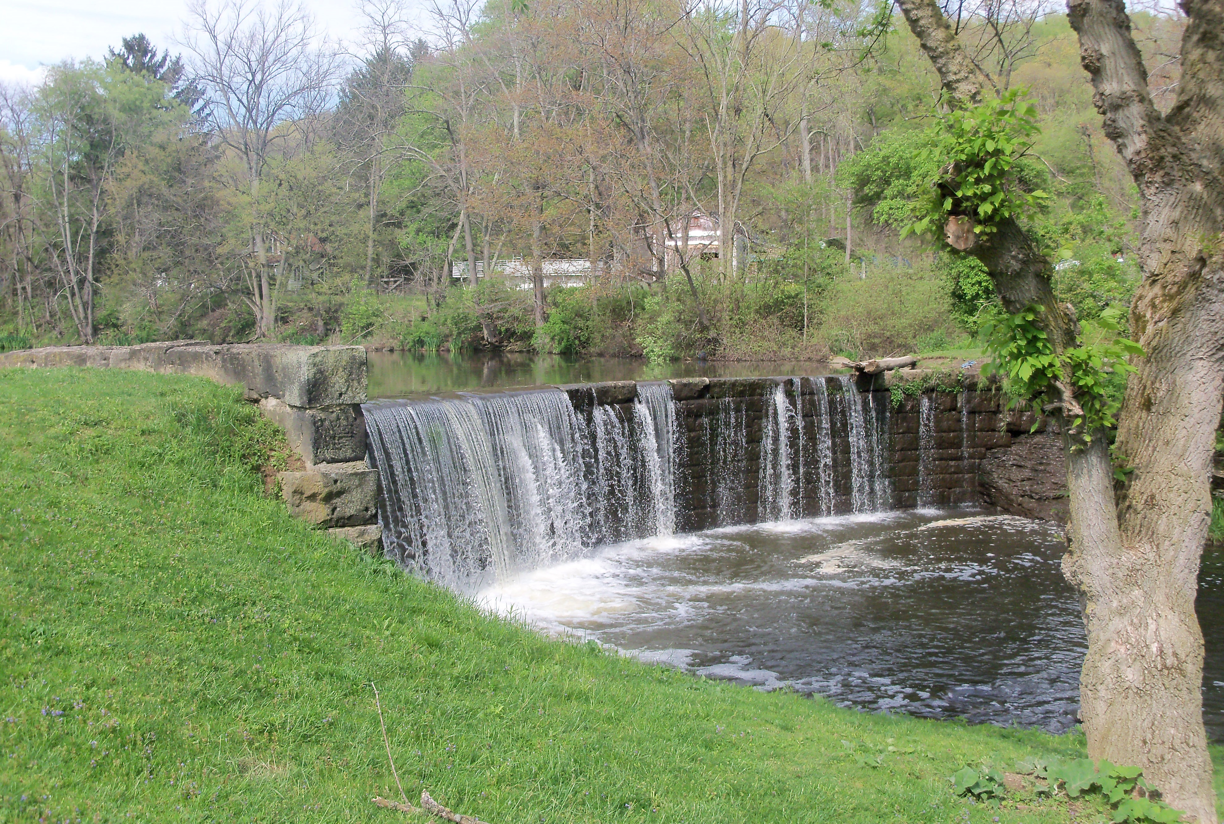 This dam across Bull Creek in New Waterford, Ohio impounds a pond in the village park.